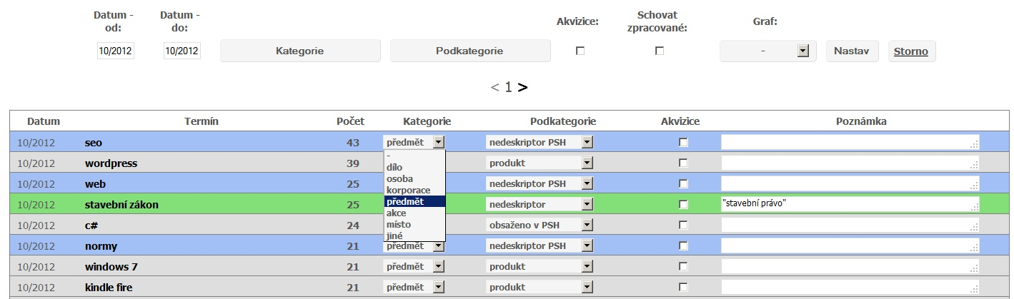 Rozhraní pro analýzu logu znázorňující data, která jsou roztříděna do kategorií.